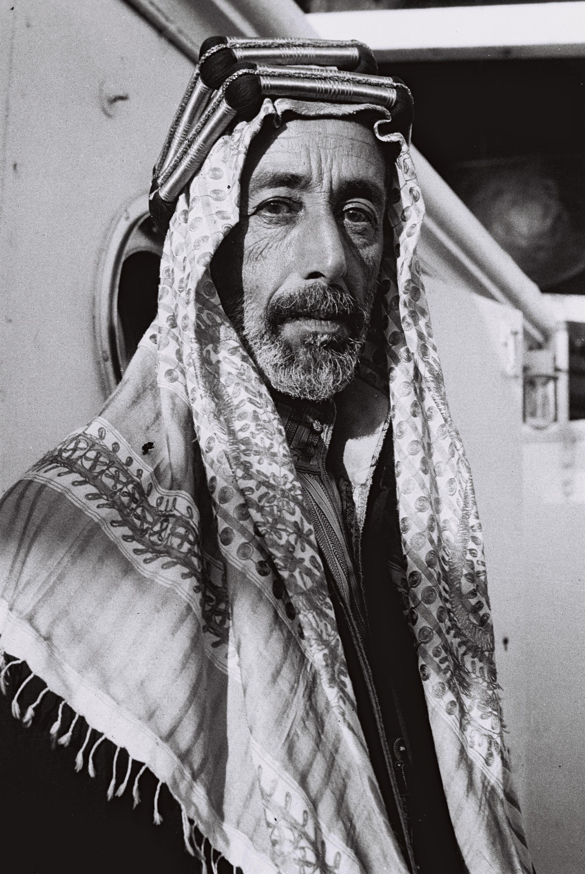 Ali of Hijaz